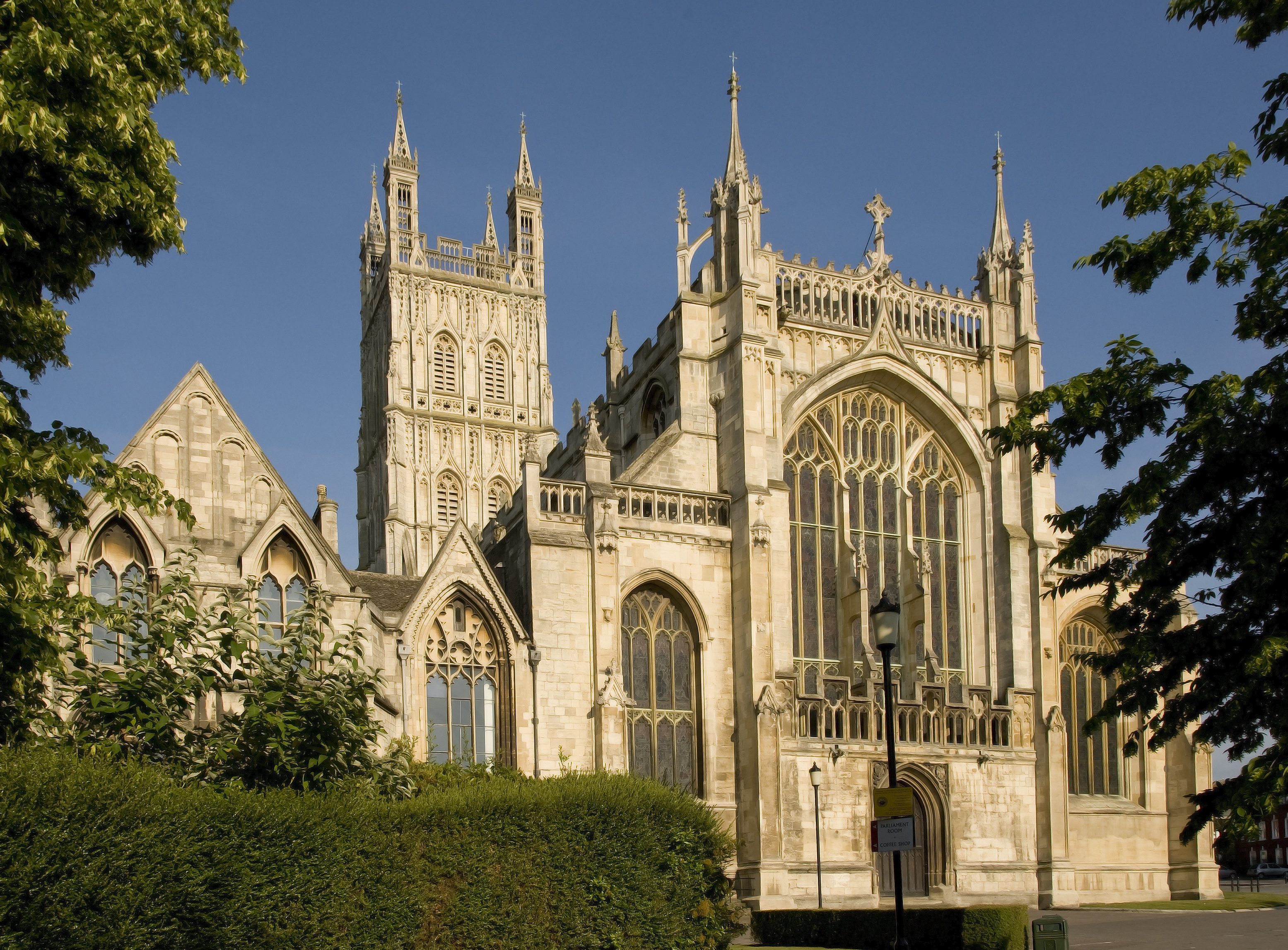 Front view of the Gloucester Cathedral (Cathedral Church of St Peter and the Holy and Indivisible Trinity). Gloucester, England. Foundation work began on the church in 1089.